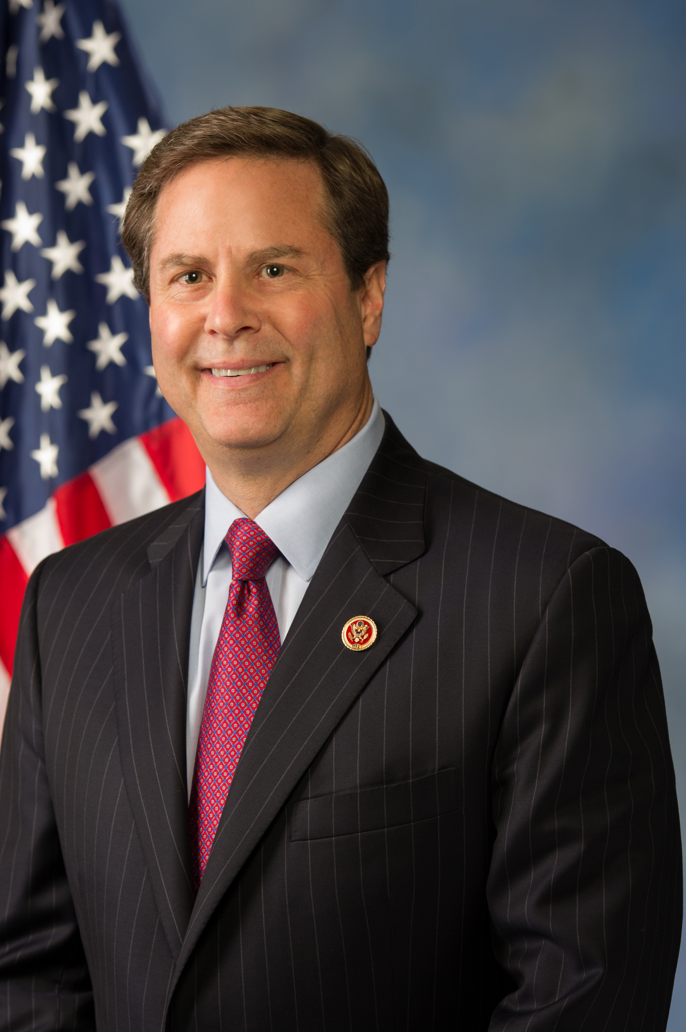 Official US House photo Donald Norcross